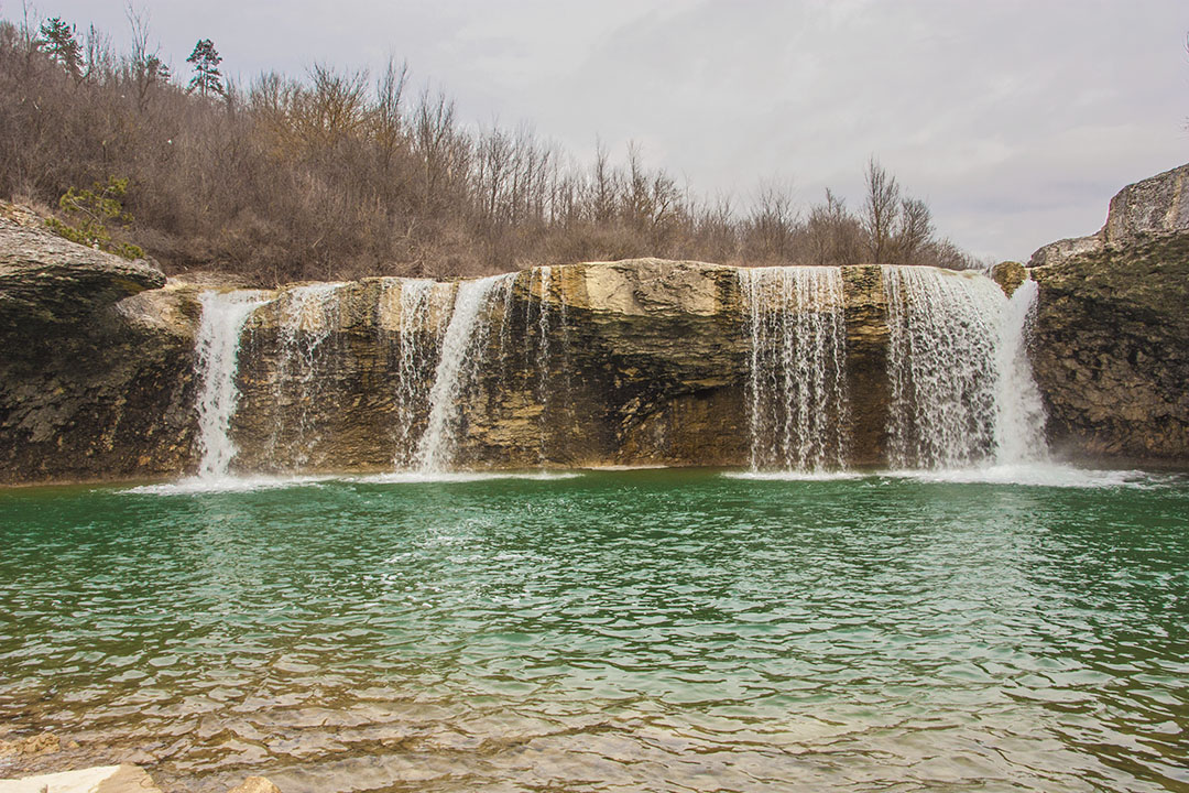 waterfall Pazinski krov near Pazin city